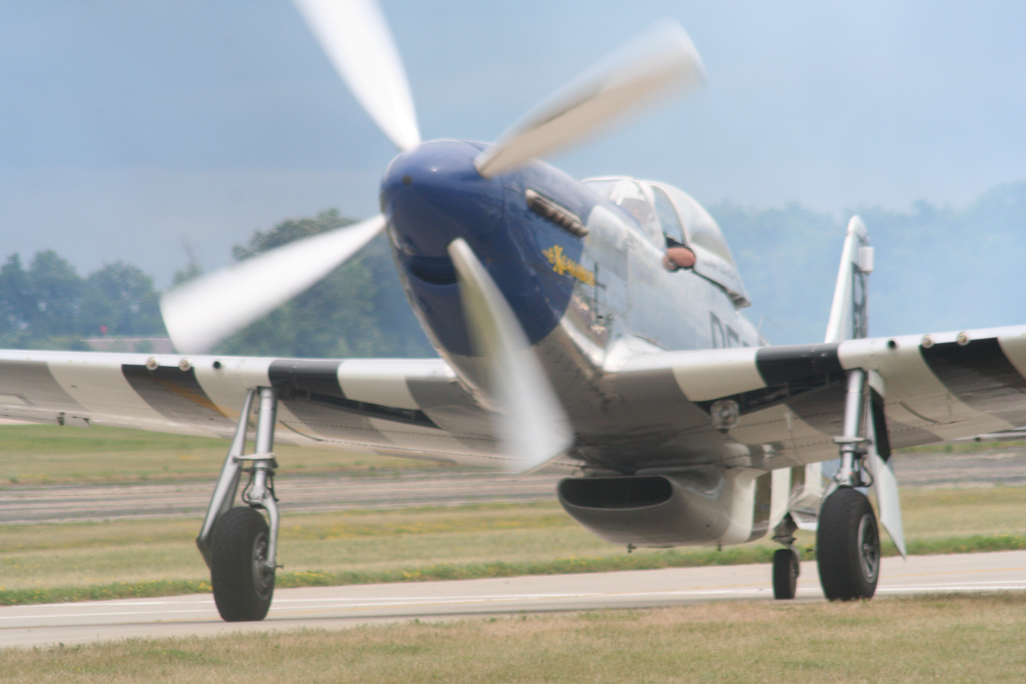 One of many P-51D Mustangs at Oshkosh, 2005.